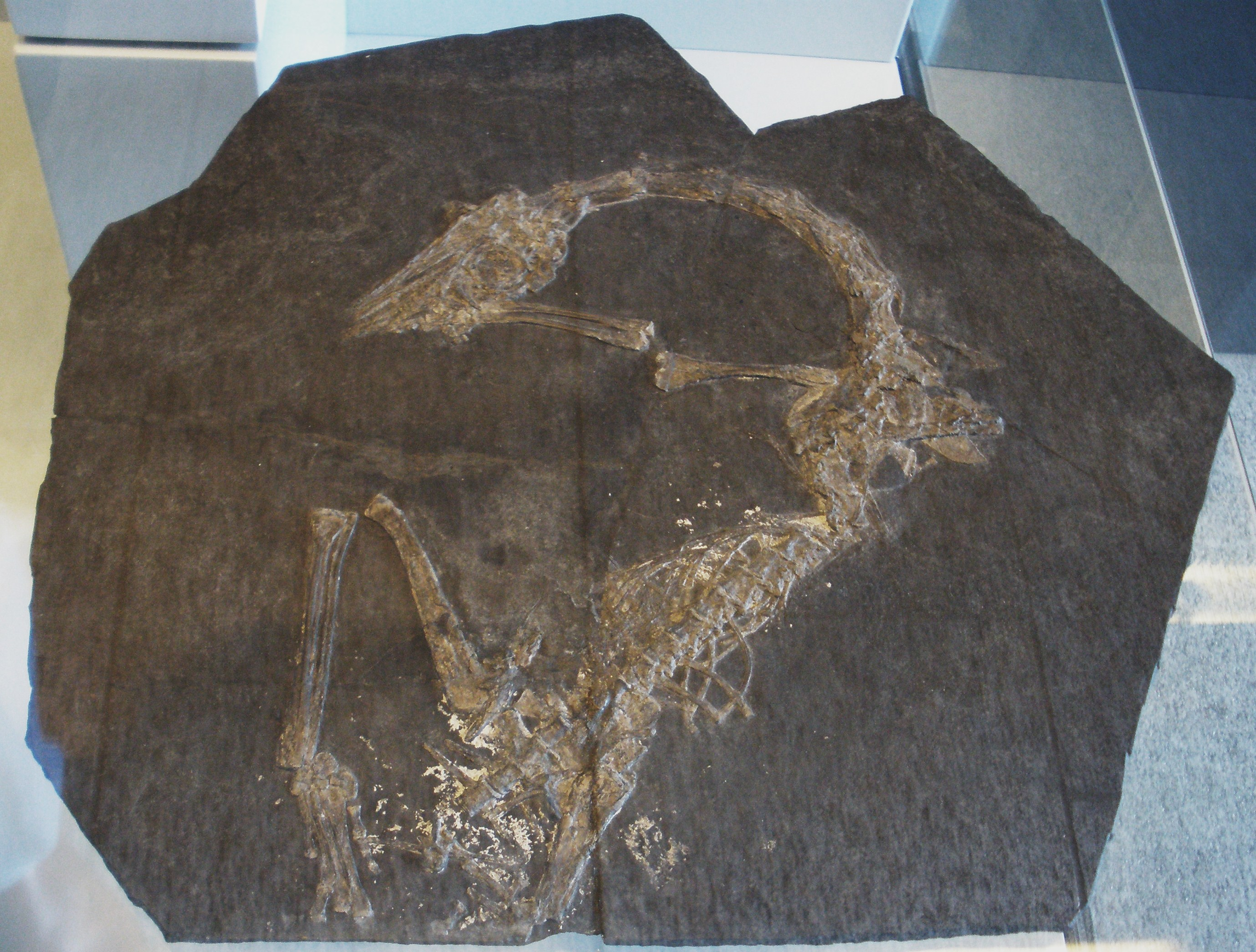 fossil macrocnemus